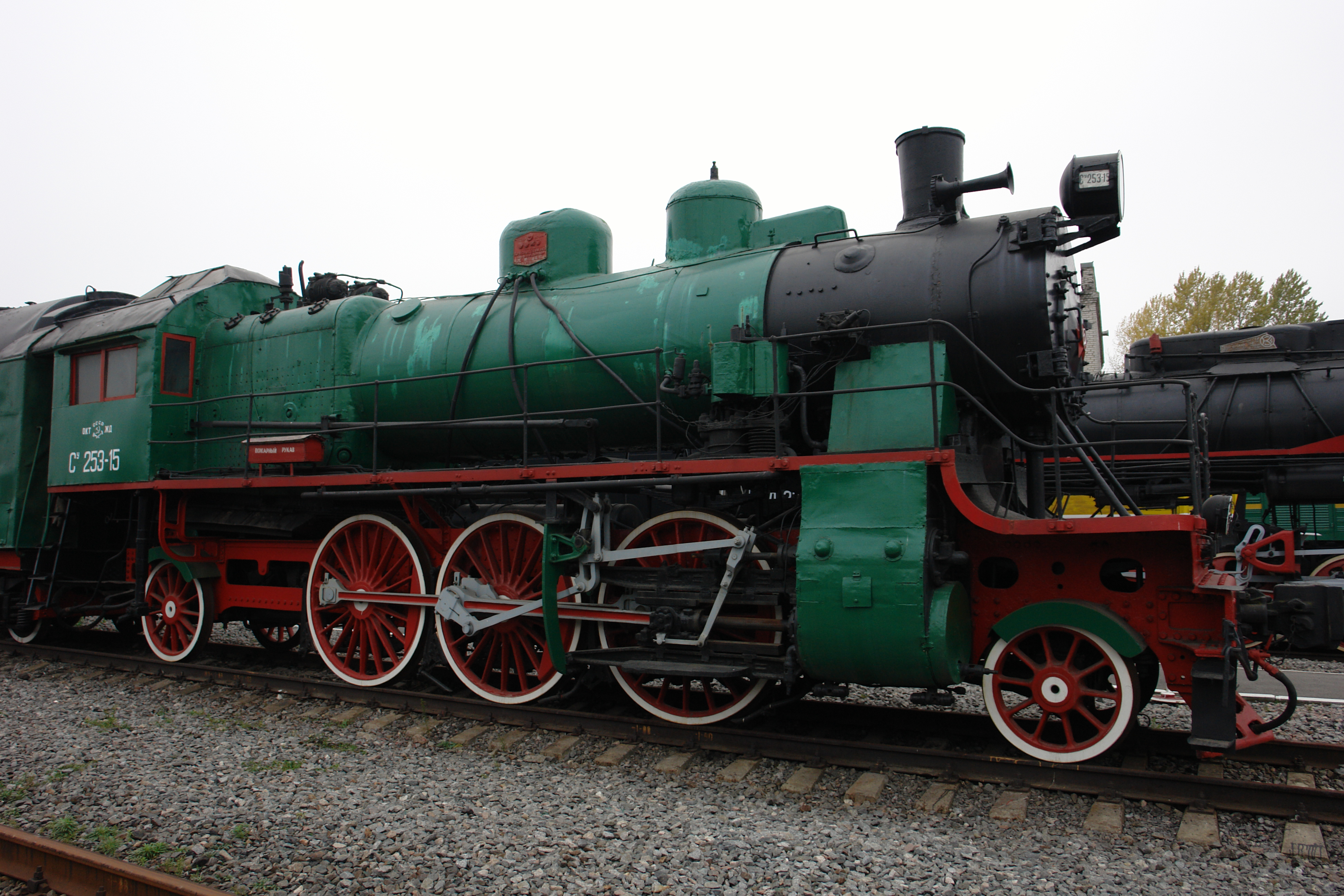 Passenger steam locomotive Su 253-15 Weight in working order:excluding tender871 t.including tender1301 t.Design speed115 kphMaximum power at wheel rim1600 hp